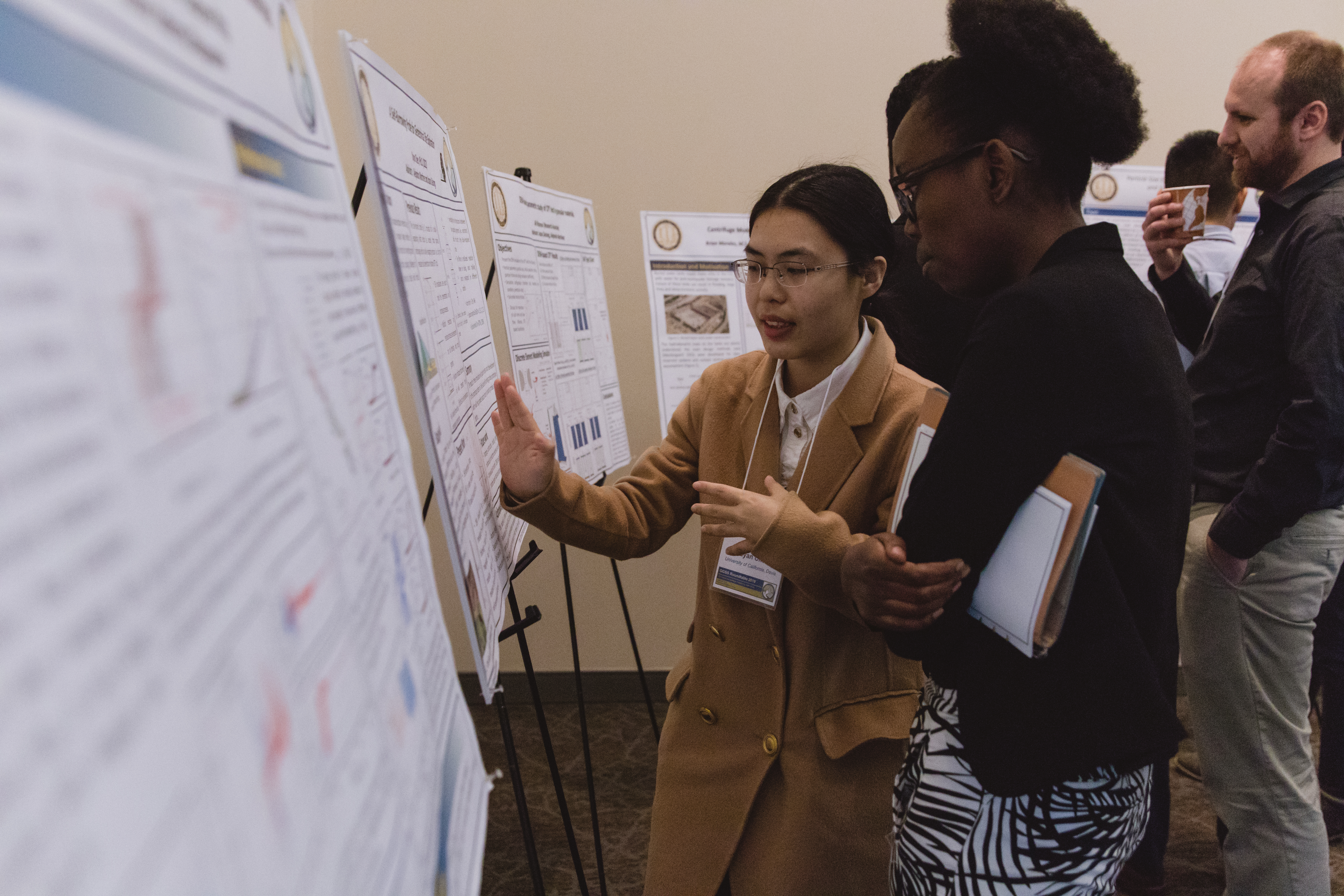 Two women stand in front of a poster, one gesturing and appearing to explain the poster to the other. Behind them, several men also examine posters